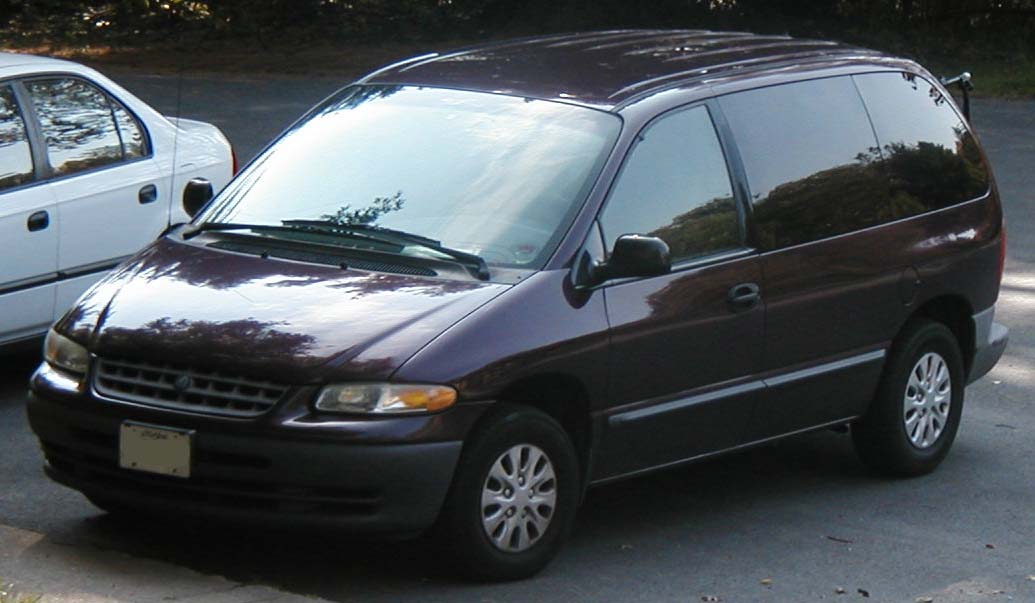 1996-1999 Plymouth Voyager SWB photographed in USA.